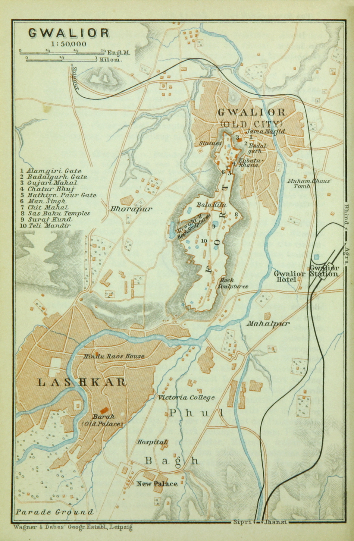 Map of the city of Gwalior, ca 1914 (1:50,000). Labelled in English.